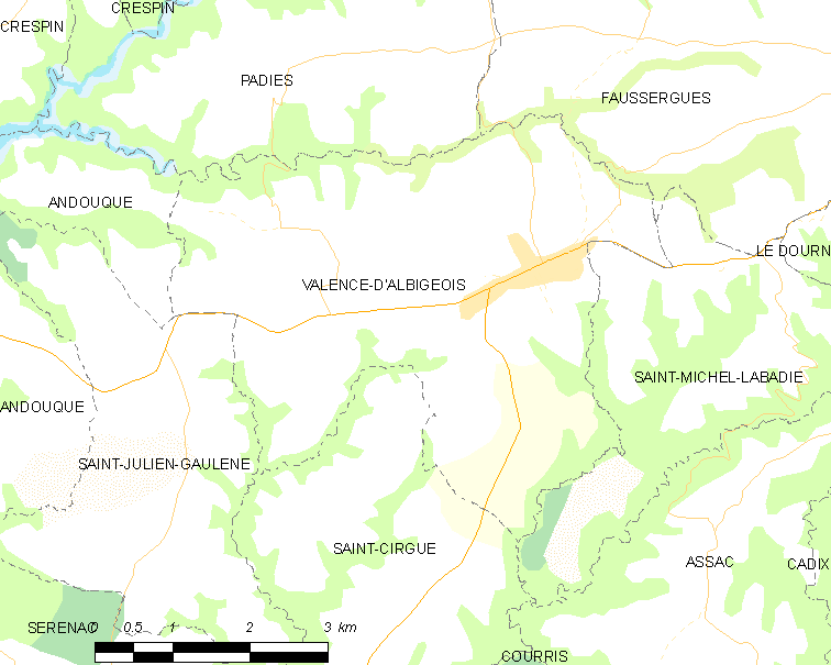 Map of French municipality Valence-d'Albigeois